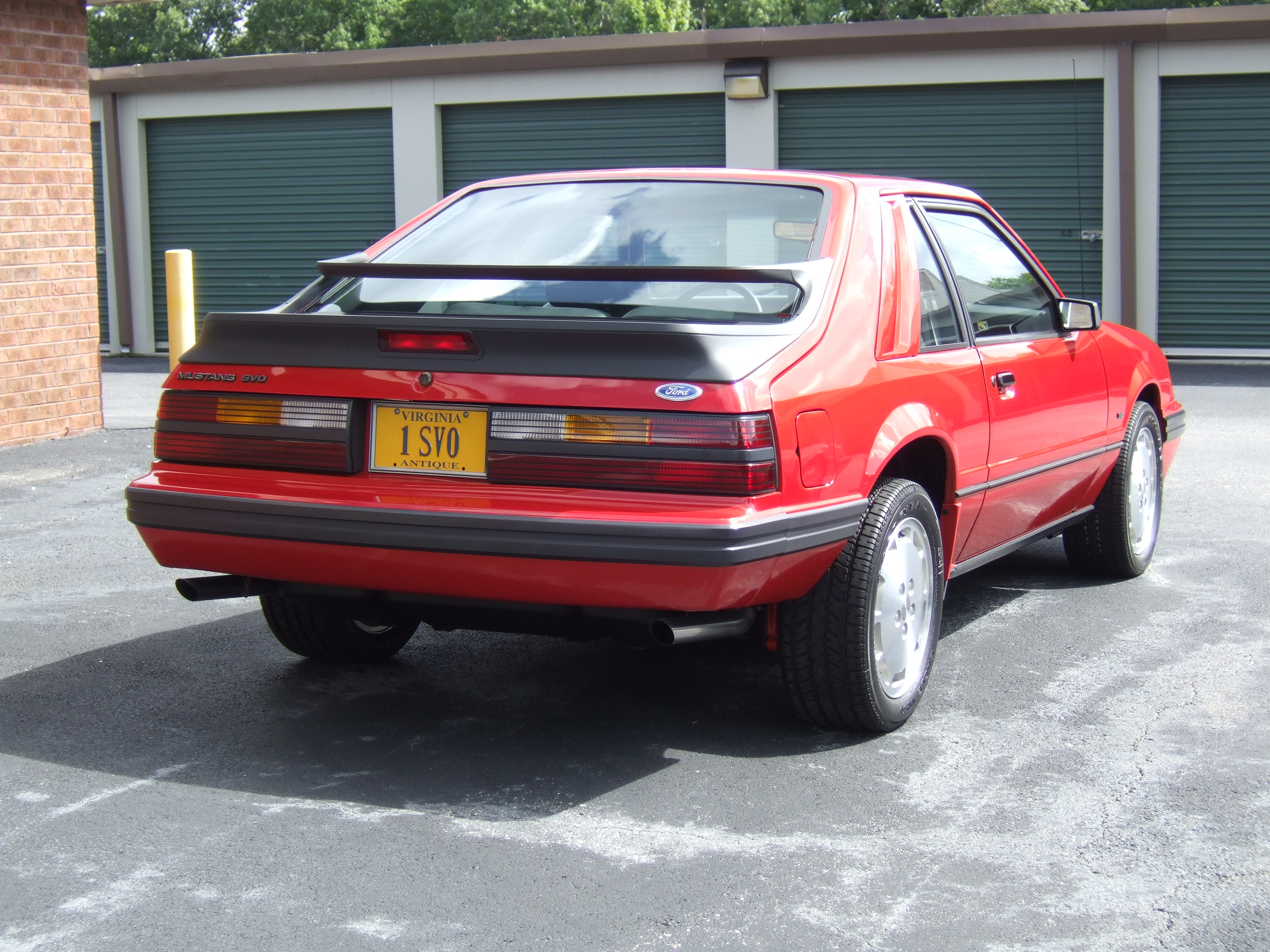 My 86 Mustang SVO with 1,500 Miles